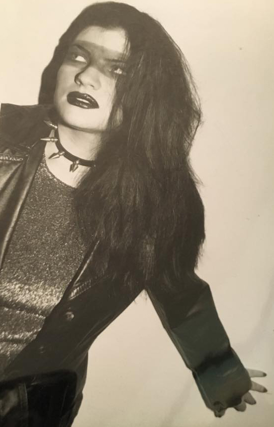 Model Sandi J., Goth Subculture in Cleveland, Ohio